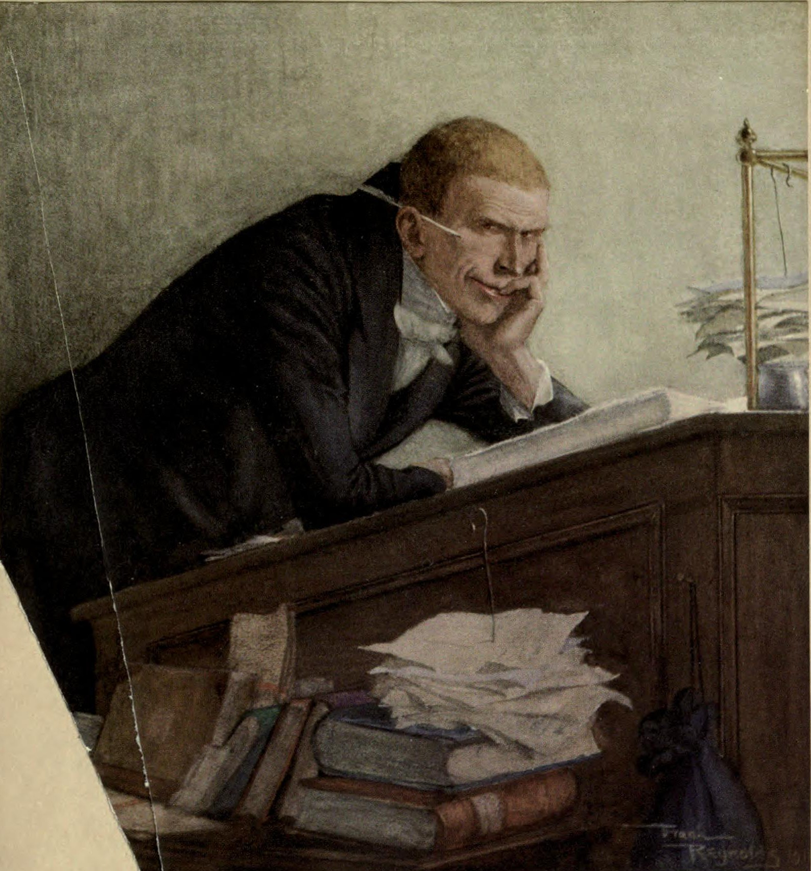 Uriah Heep a character in Charles Dickens' David Copperfield.